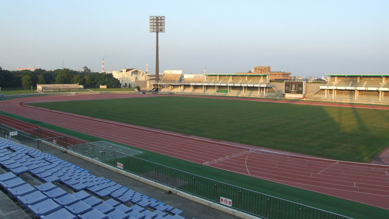 Ichihararyokuchi Sports Park Seaside Stadium